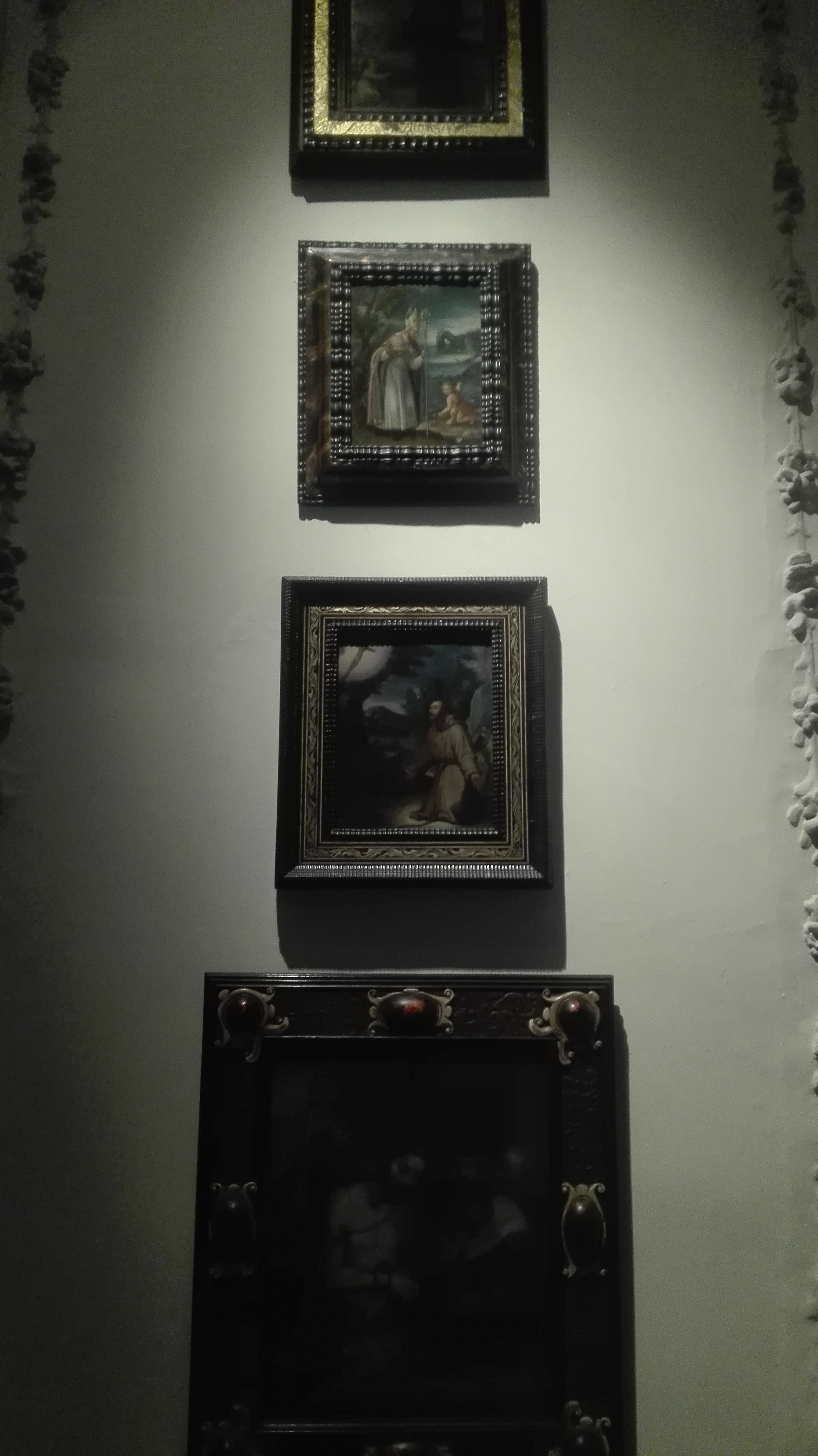 Art works of the private collection of Guillermo Tovar de Teresa, self-educated Mexican historian and chronicler (1956-2013), at Casa Museo Guillermo Tovar de Teresa, where he lived (Valladolid 52, neighborhood Roma, borough Cuauhtémoc, Mexico City).